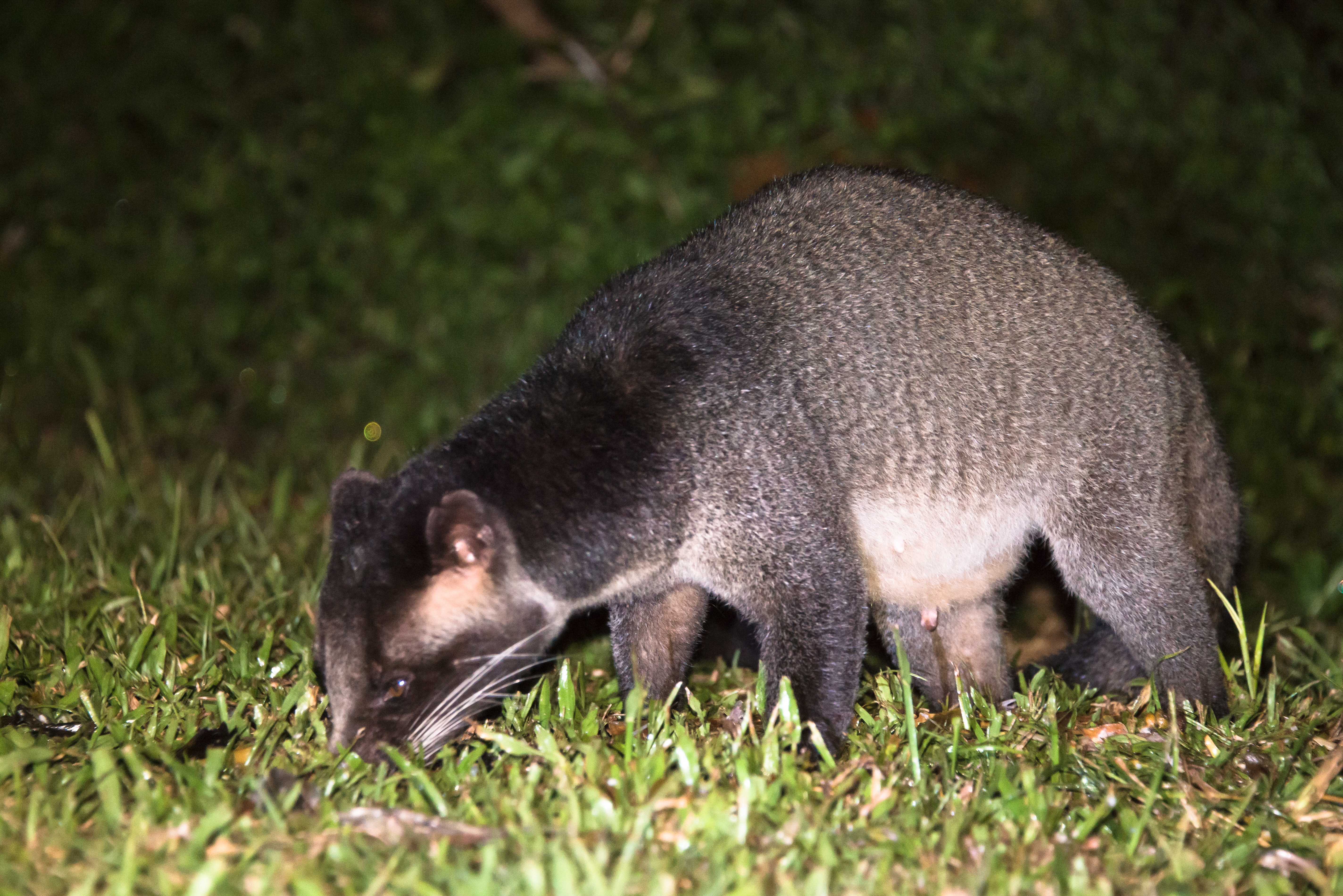 Paguma larvata, masked palm civet - Kaeng Krachan National Park. Photo by Thai National Parks, Thailand.